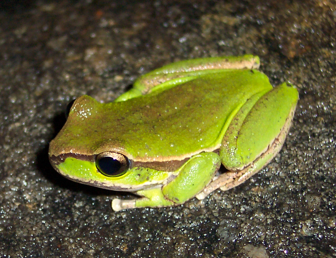 A Blue Mountains Tree Frog, (Litoria citropa), showing a green colouration.